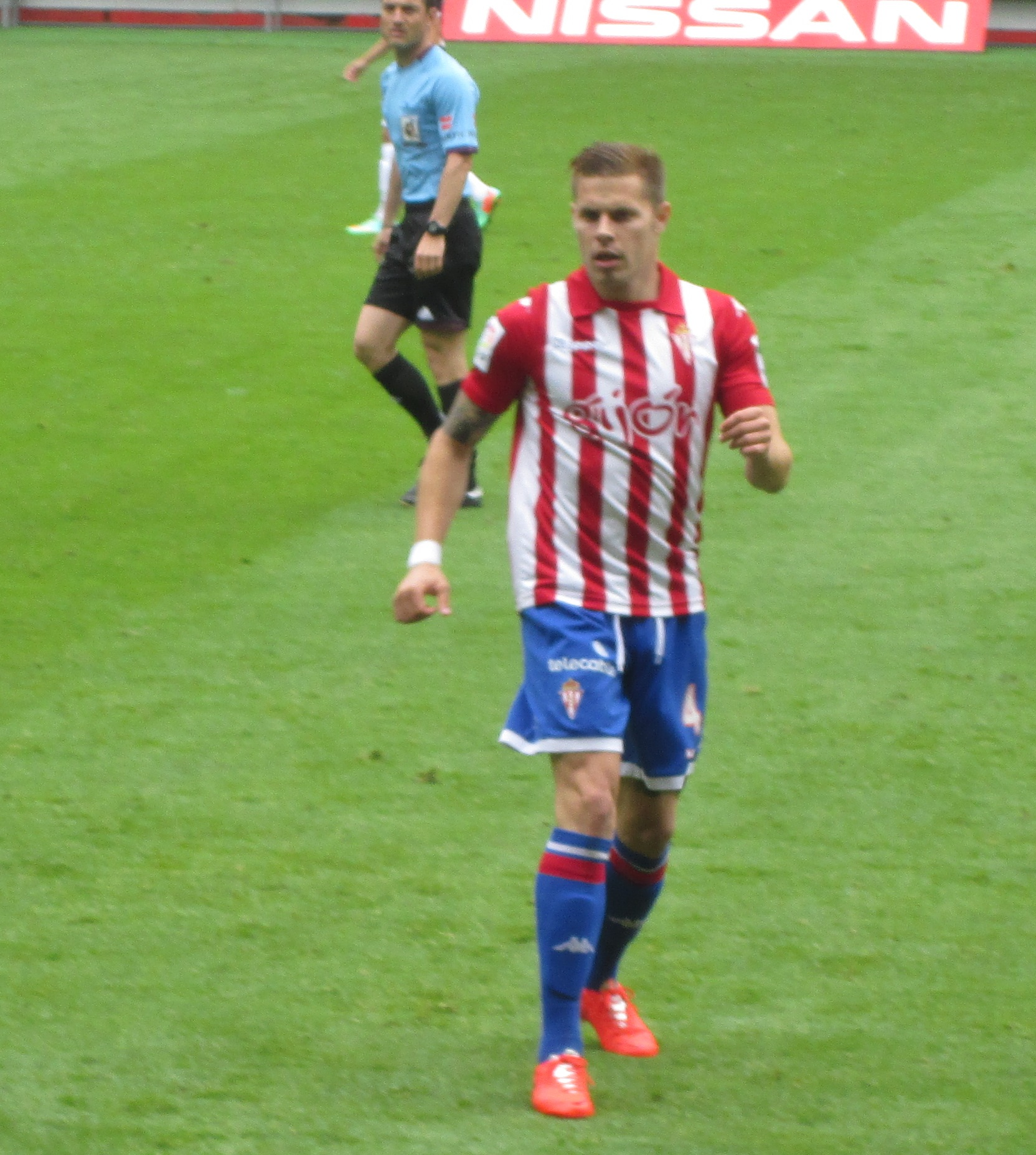 Armando Sosa Peña, "Mandi", in a game for Sporting de Gijón